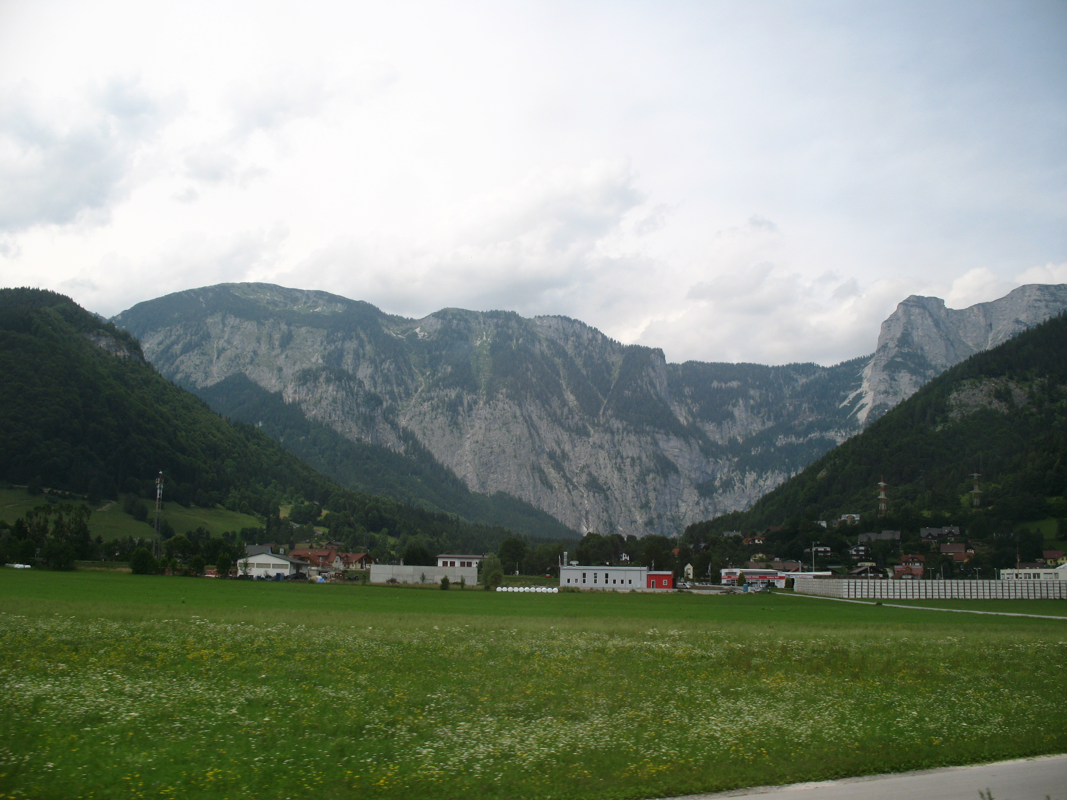 Weißenbach in Liezen, Austria